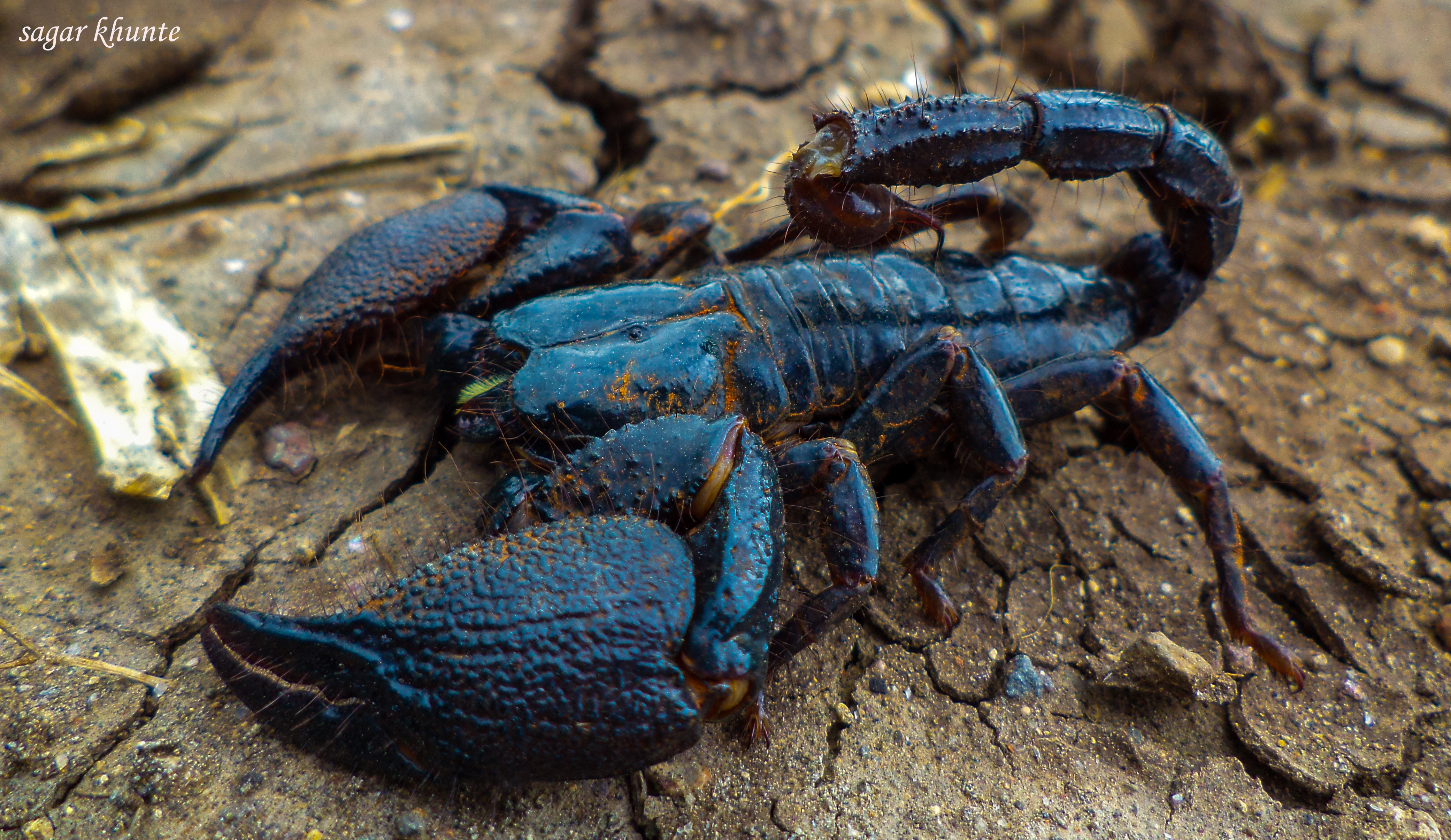 Heterometrus bengalensis